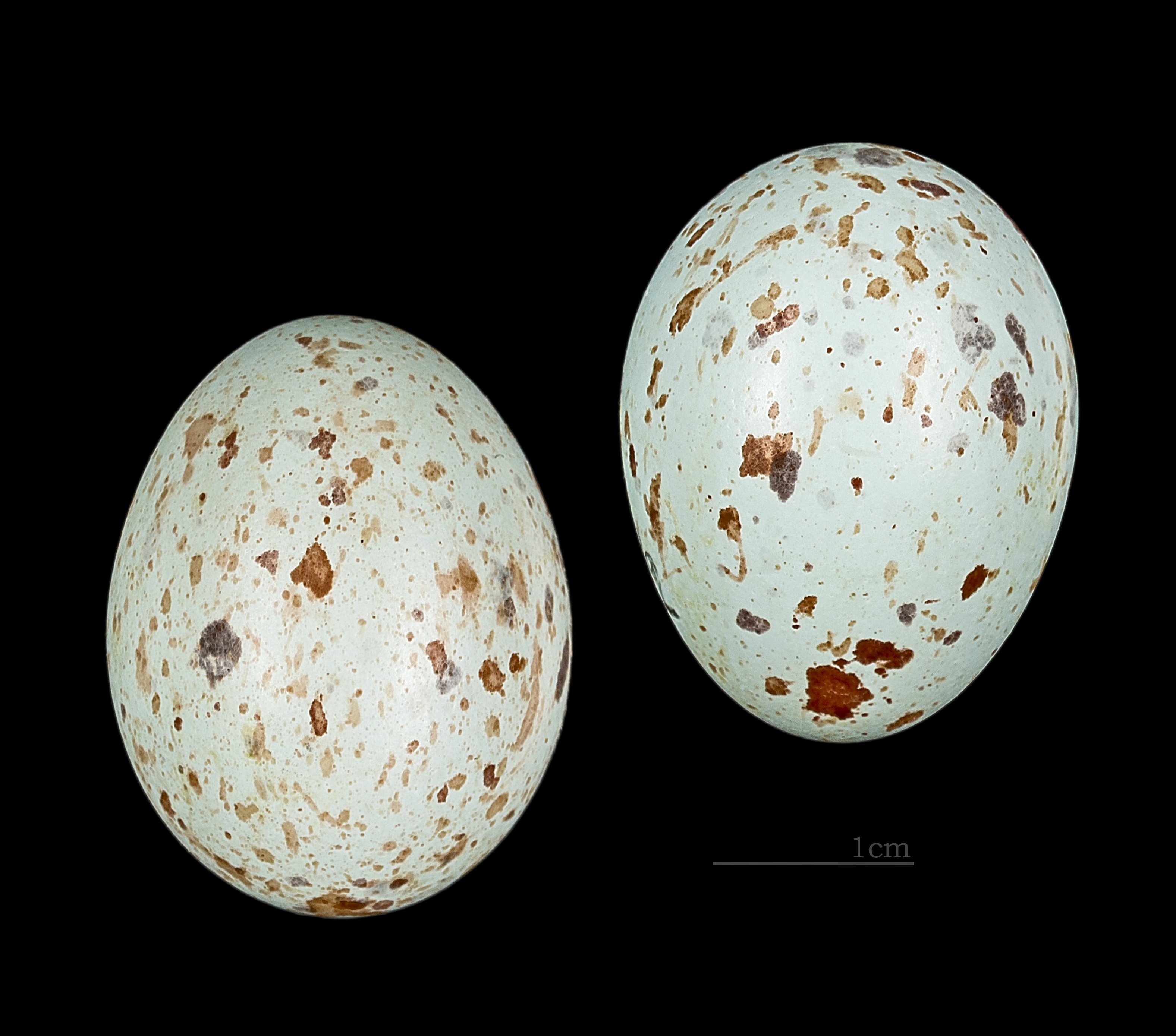 Egg of Splendid Starling. Collection of René de Naurois / Jacques Perrin de Brichambaut.